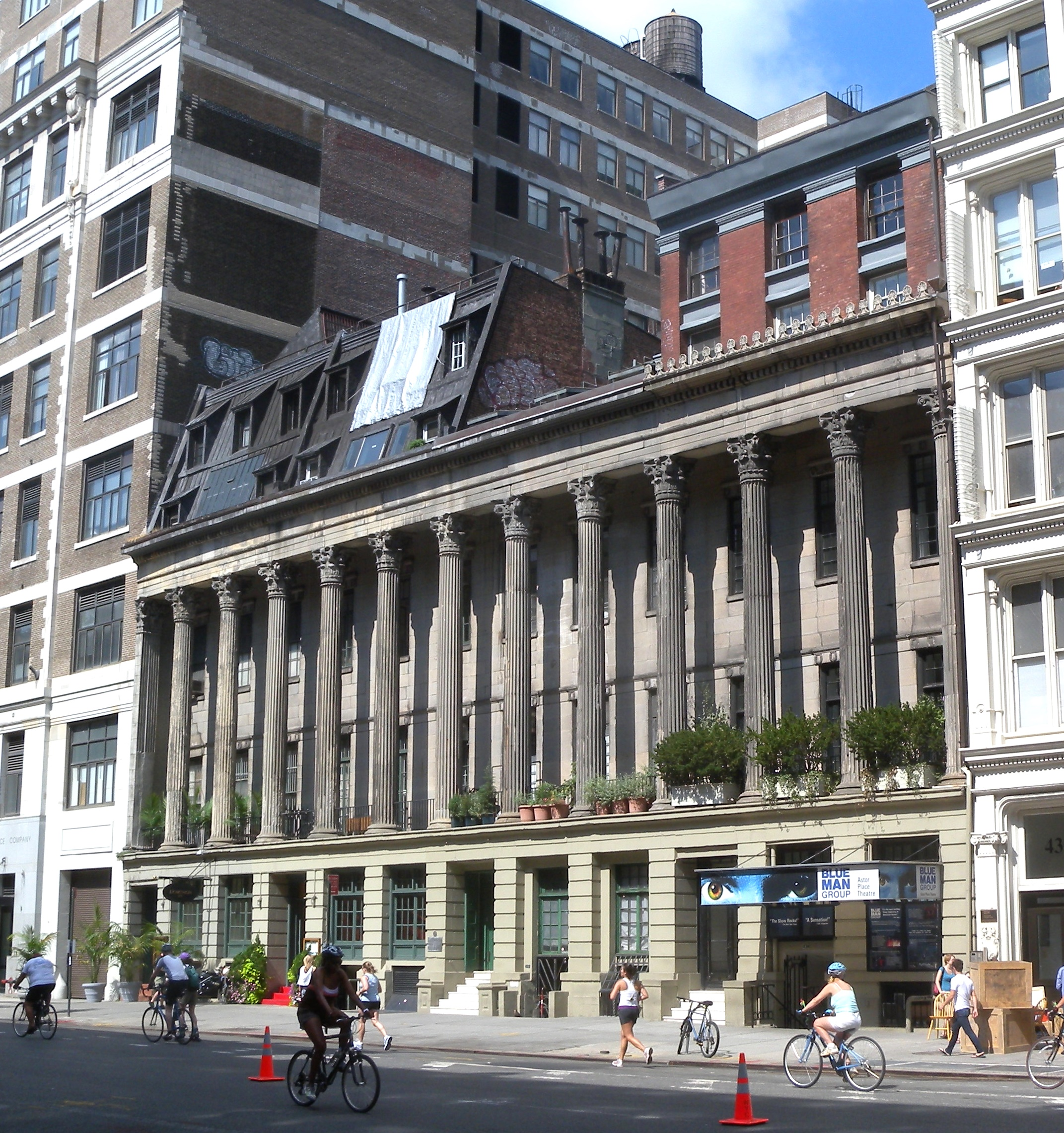 Looking southwest across Lafayette Street at Colonnade Row on a sunny morning.